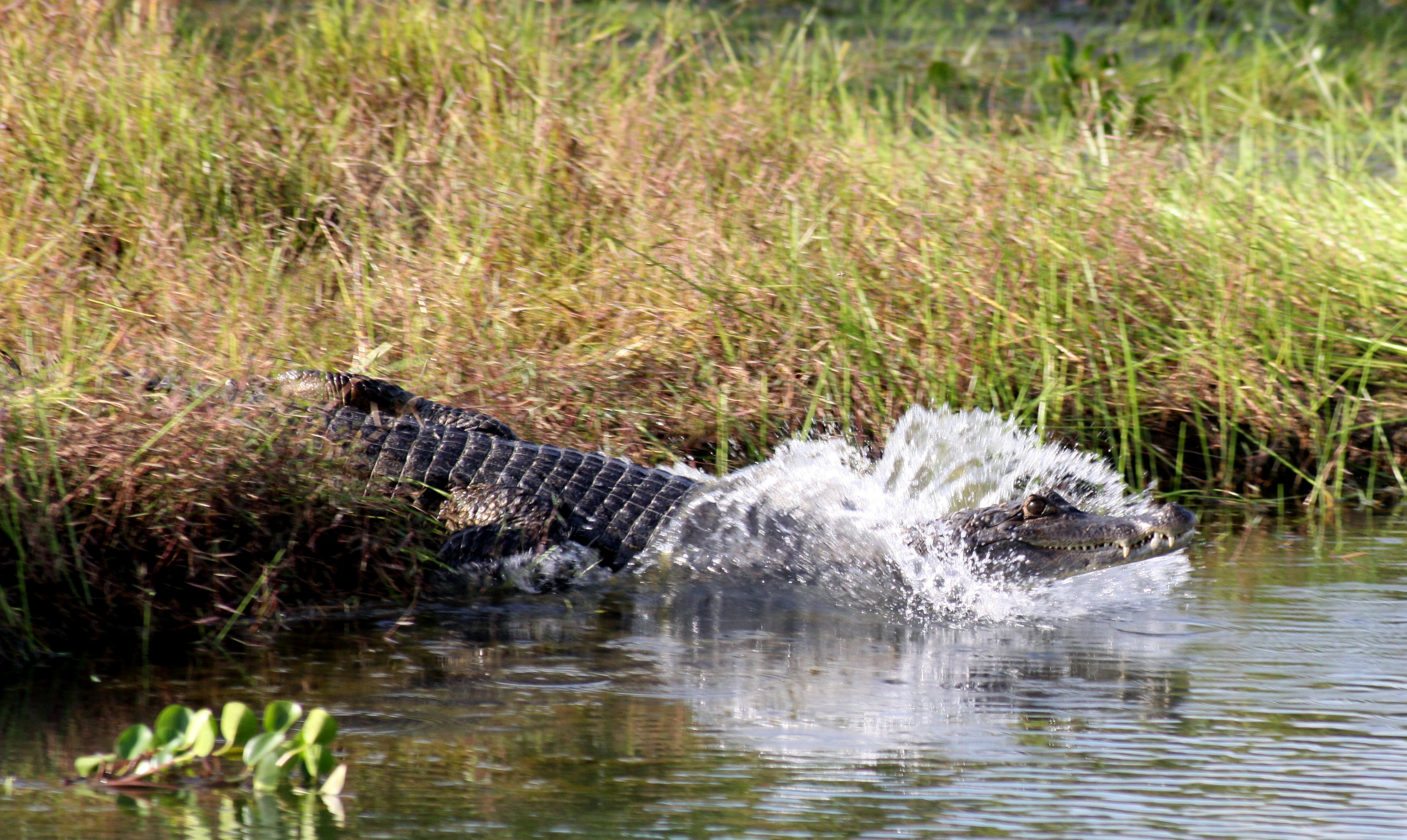 Crocodylus intermedius (caiman llanero) taken in the savanna near Mani, Colombia.